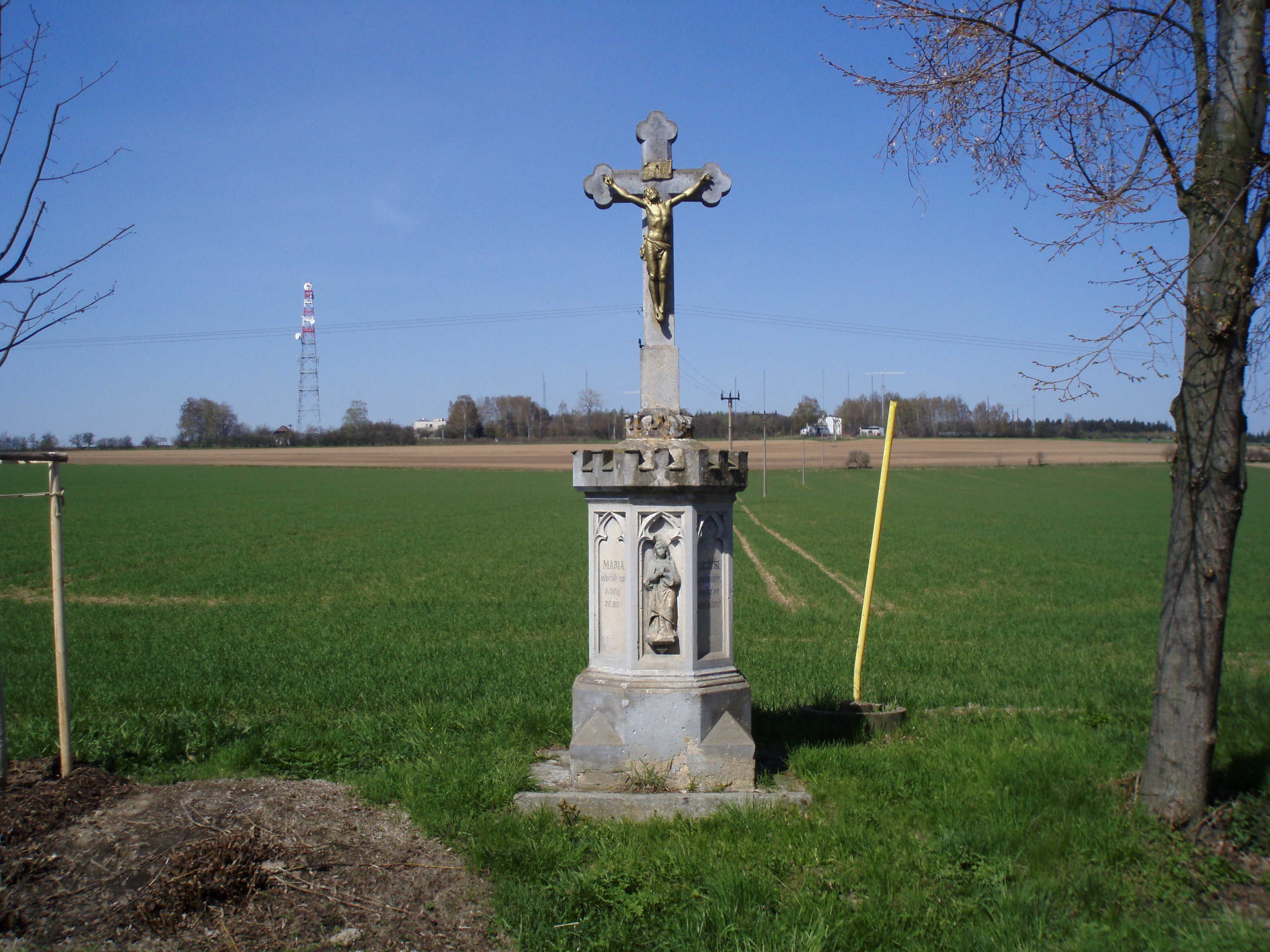 Second Stone Cross in Chaloupky (Hradec Králové, Czechia)